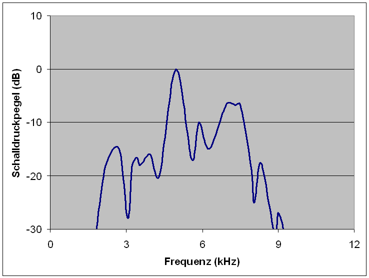 Frequency spectrum of echolocation call of Atiu swiftlet (Aerodramus sawtelli) at the entrance of a cave, adapted from: James H. Fullard, Robert M. R. Barclay: Echolocation in Free Flying Atiu Swiftlet (Aerodramus sawtelli). In: Biotropica. 25: 334–339, 1993